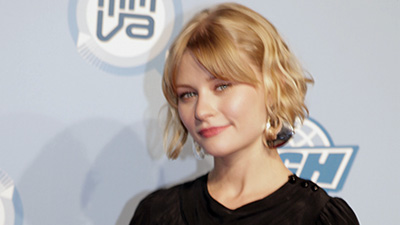 Emilie de Ravin attending the 2007 MuchMusic Video Awards in Toronto, Ontario, Canada